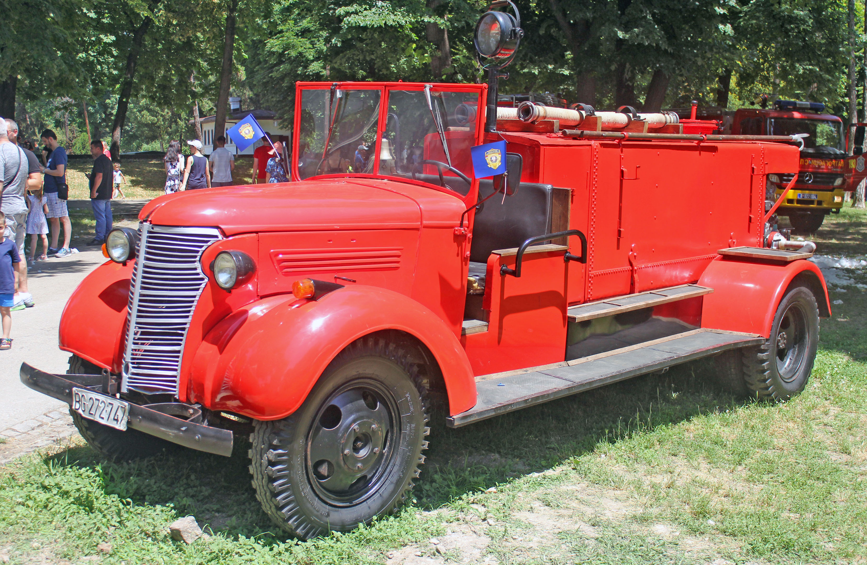 Old museum 1938 Chevrolet 300 gpm fire pumper of Belgrade fire brigade on display during the 2019 Police Day at Belgrade.